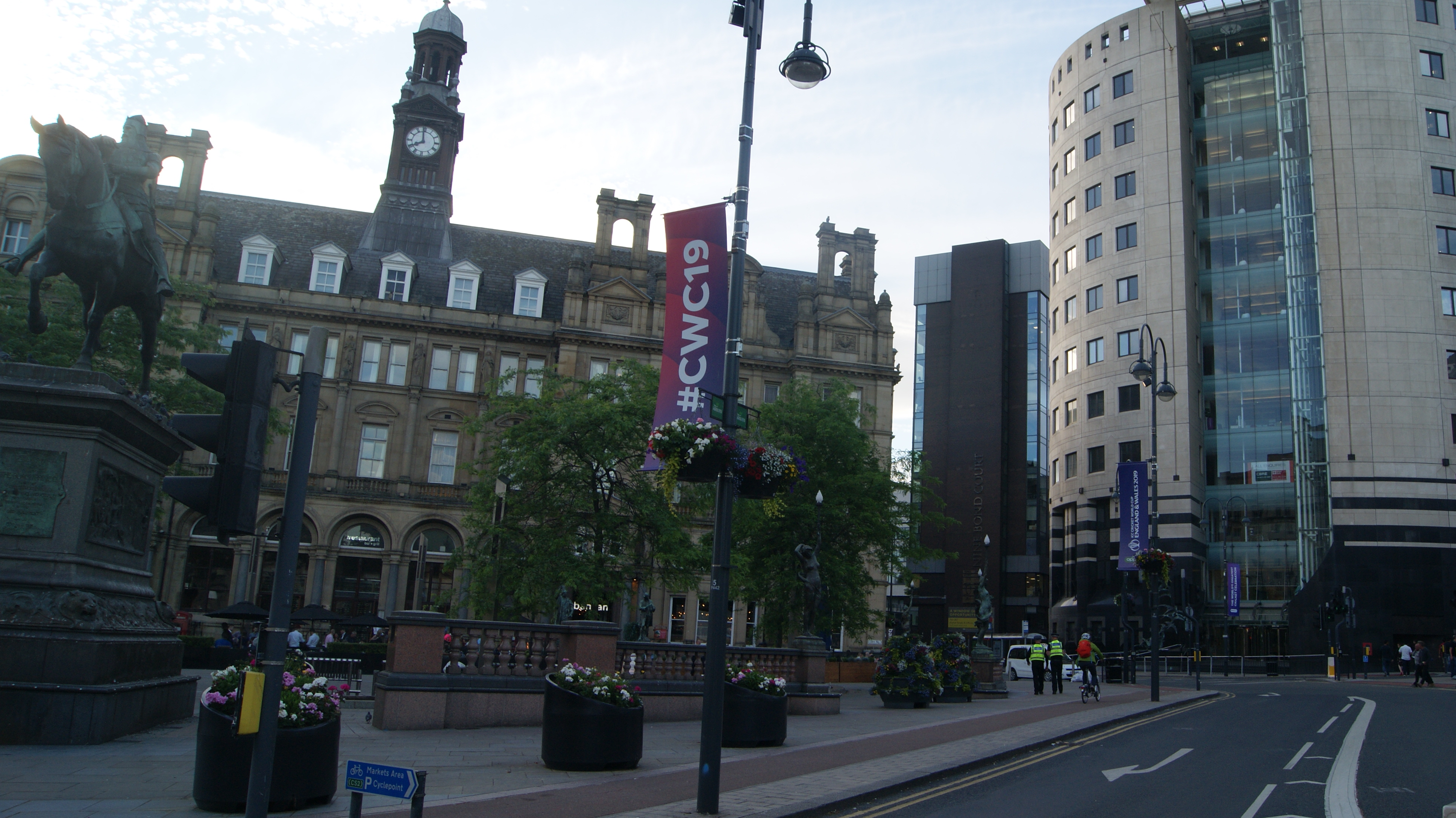 City Square, Leeds, West Yorkshire. Banners for the 2019 Cricket World Cup can be seen. Taken on the evening of Friday the 5th of July 2019.